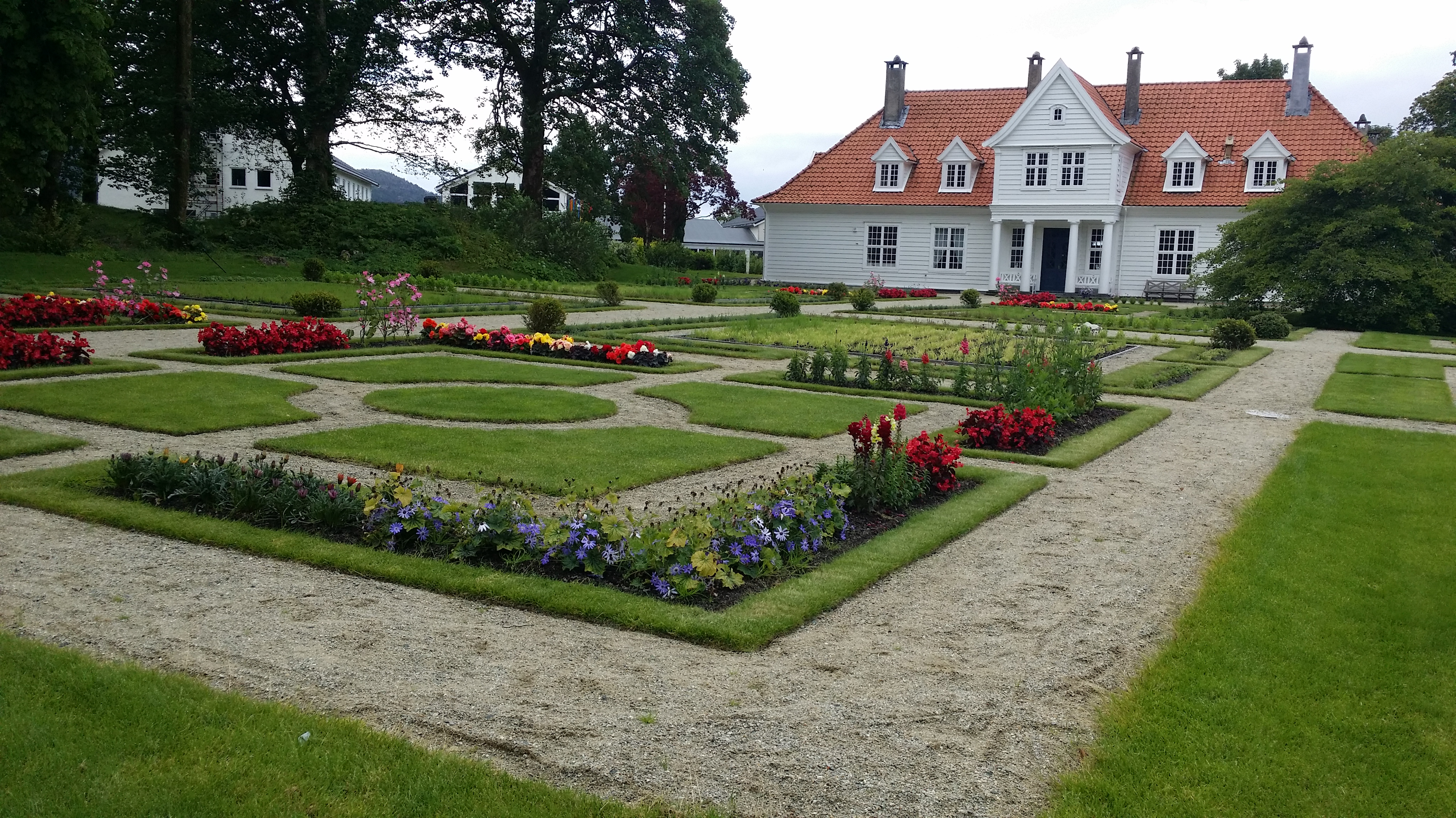 Stend parterre 2015